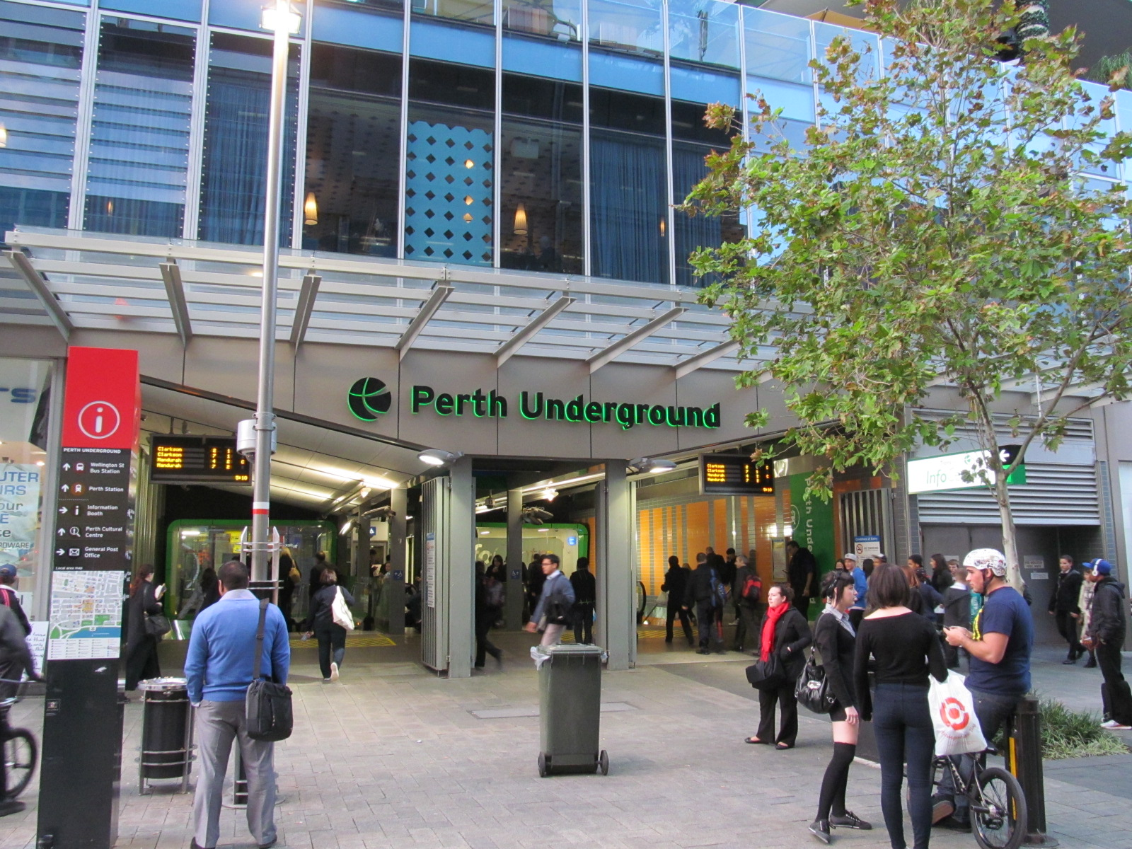 Foyer of the Perth Underground station as seen from Murray Street Mall at the evening peak period.